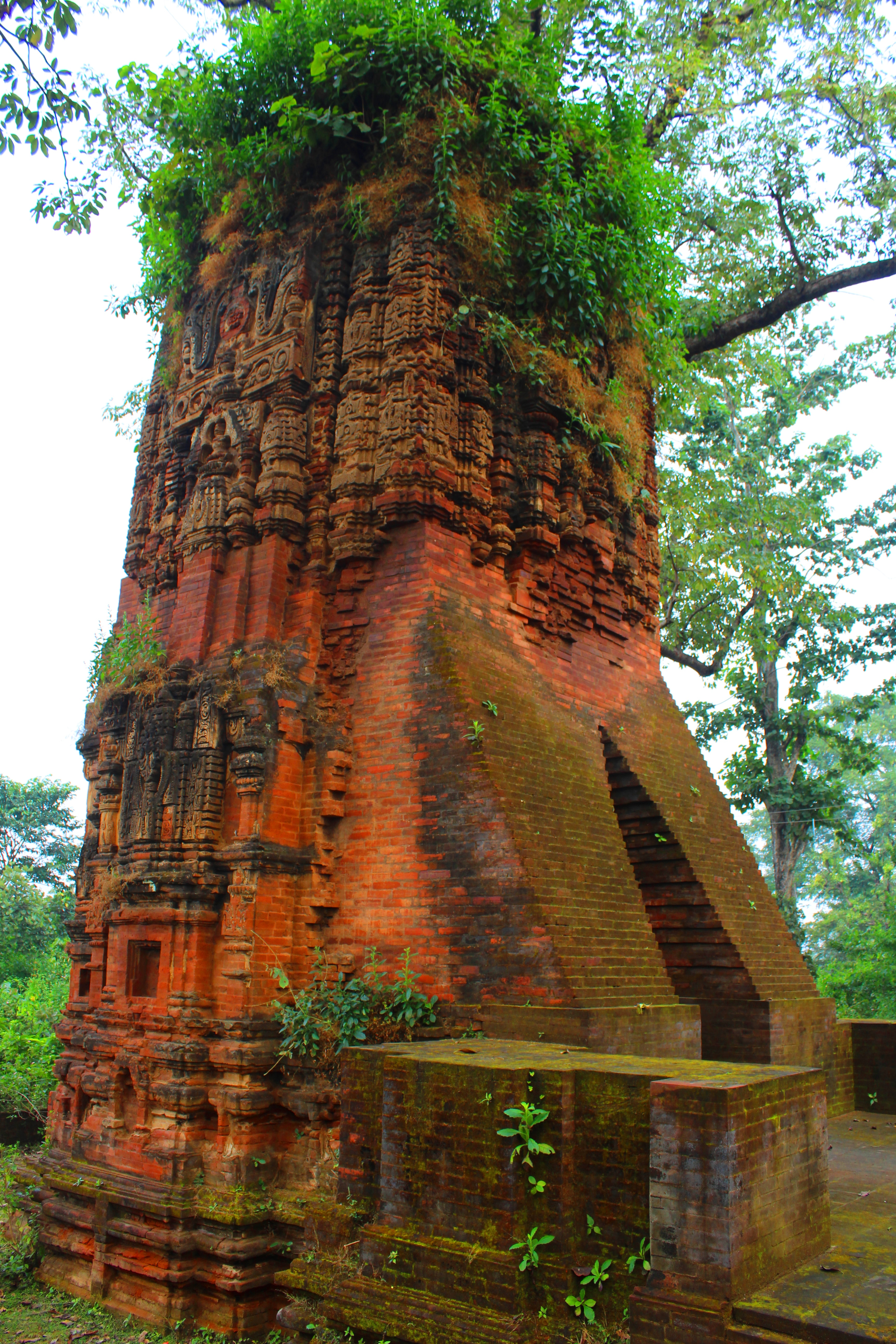 Deulghata is a place in the Purulia district of West Bengal. Deulghata literally means 'the land of the Deuls'. At present there are 2 deuls at Deulghata. This is the first Deul of Deulghata.